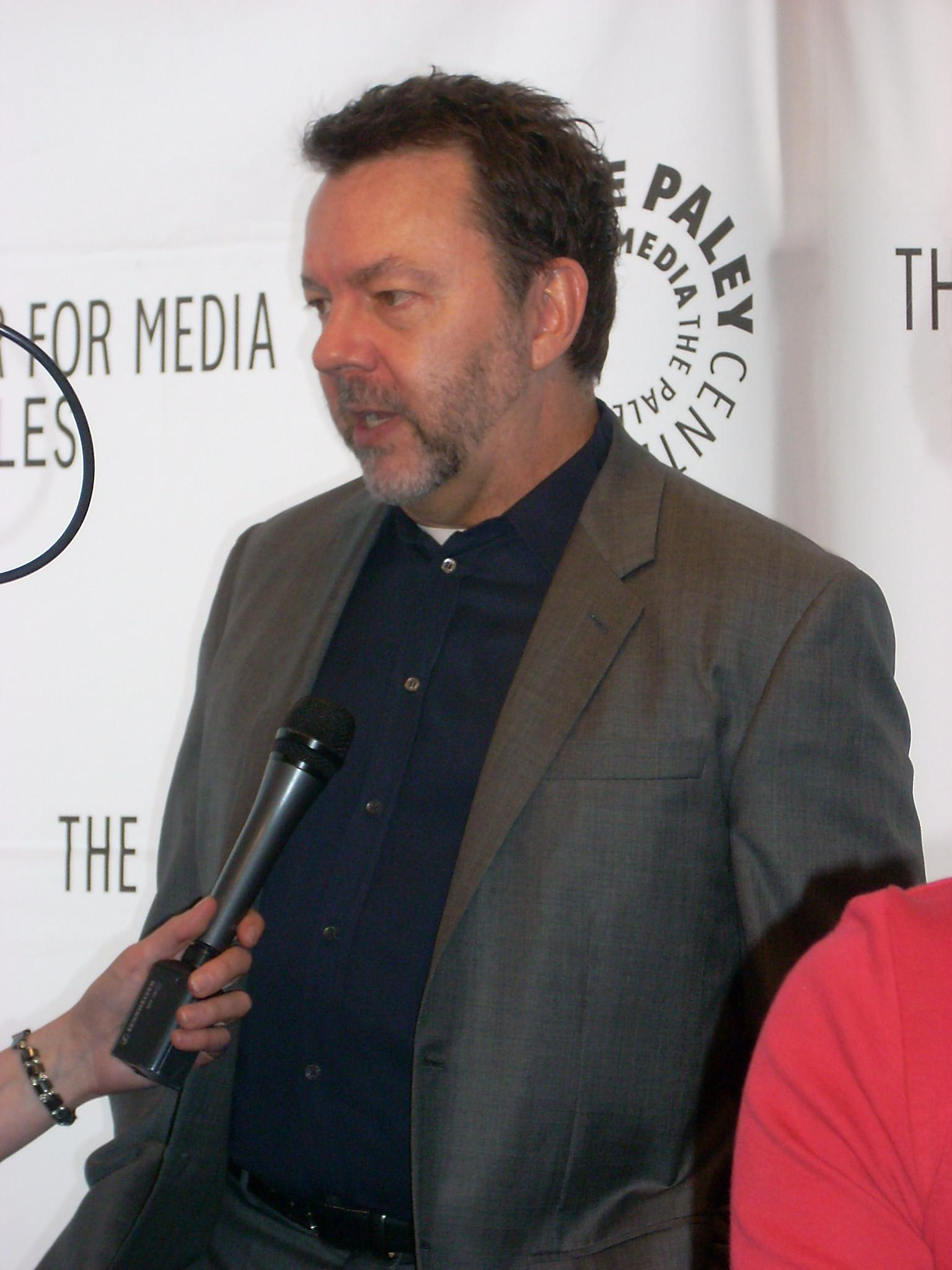 Director Alan Ball - "True Blood" 25th Annual Paley Television Festival - ArcLight Cinemas, Los Angeles.